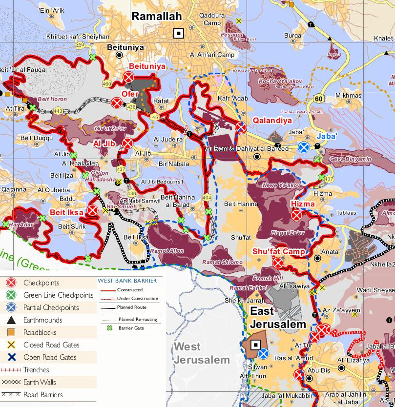 The Israeli barrier in northern Jerusalem beyond the "Green Line", separating Palestinian land in East Jerusalem from the rest of the West Bank. Also separating the West Bank from Jerusalem.